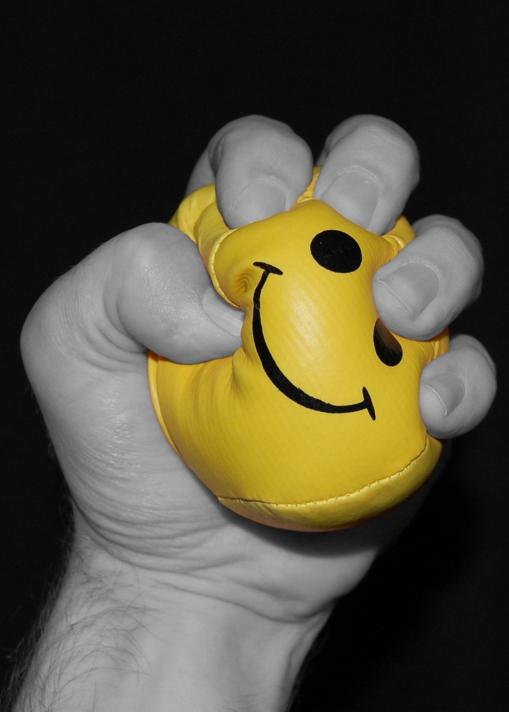 Ball and hand